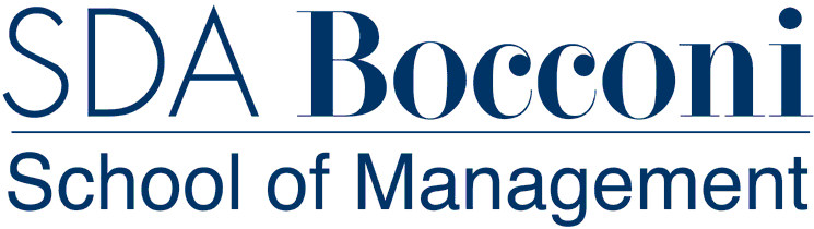 Logo of SDA Bocconi School of Management